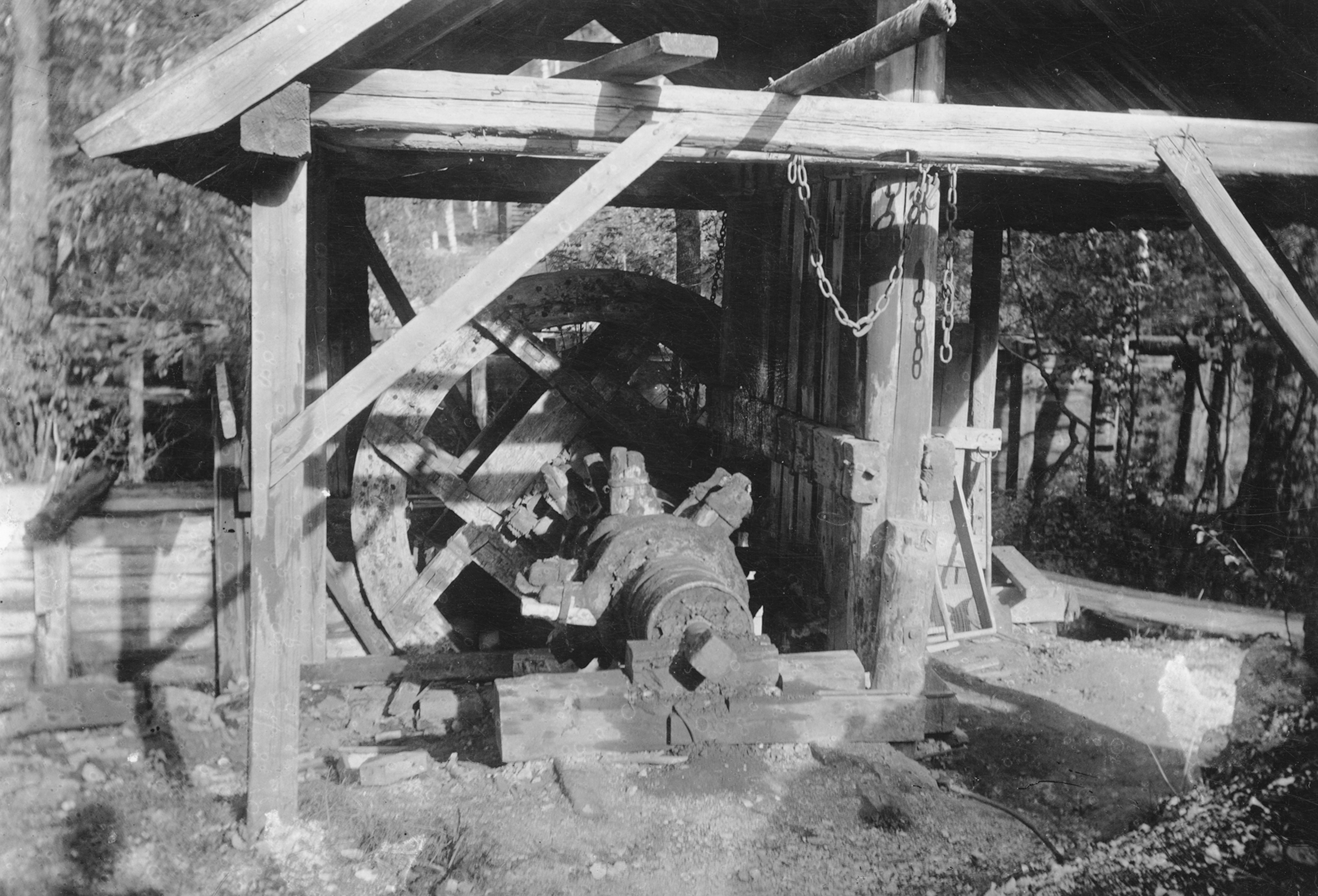 Stamp mill for iron ore at Storbrohyttan, Filipstad, Värmland Sweden, 1934.